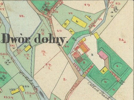 Manor house in Wydrna on a map from 1851